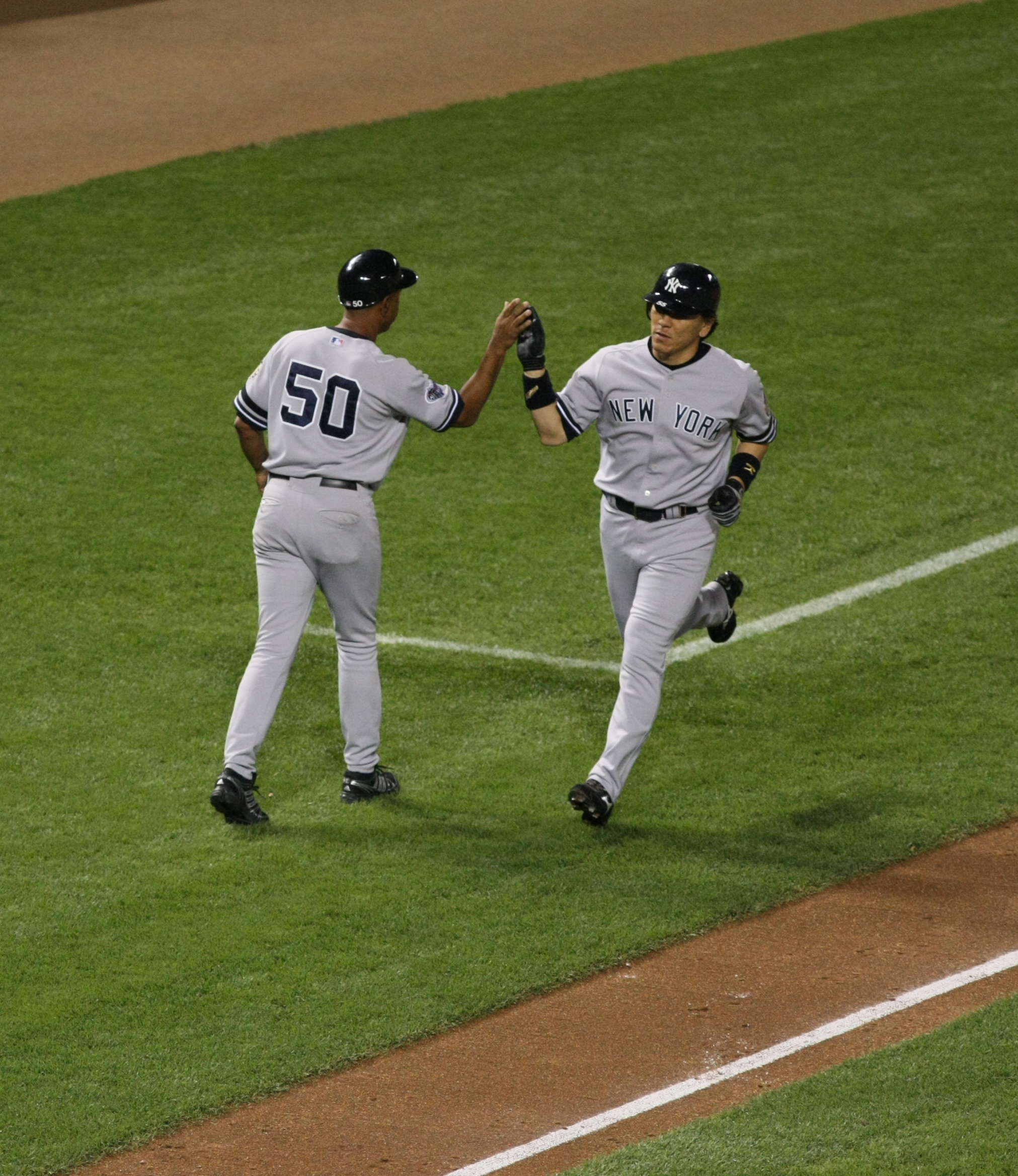 Hideki Matsui Reprint from Flickr